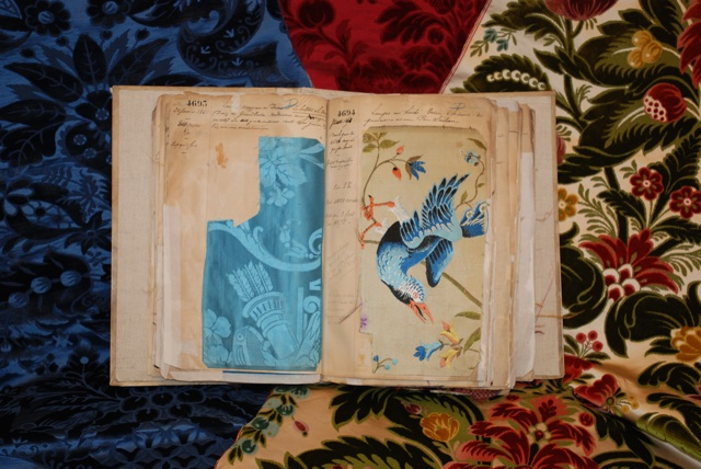 Prelle Pattern n° 4694 year 1861 Lamaps nué broché